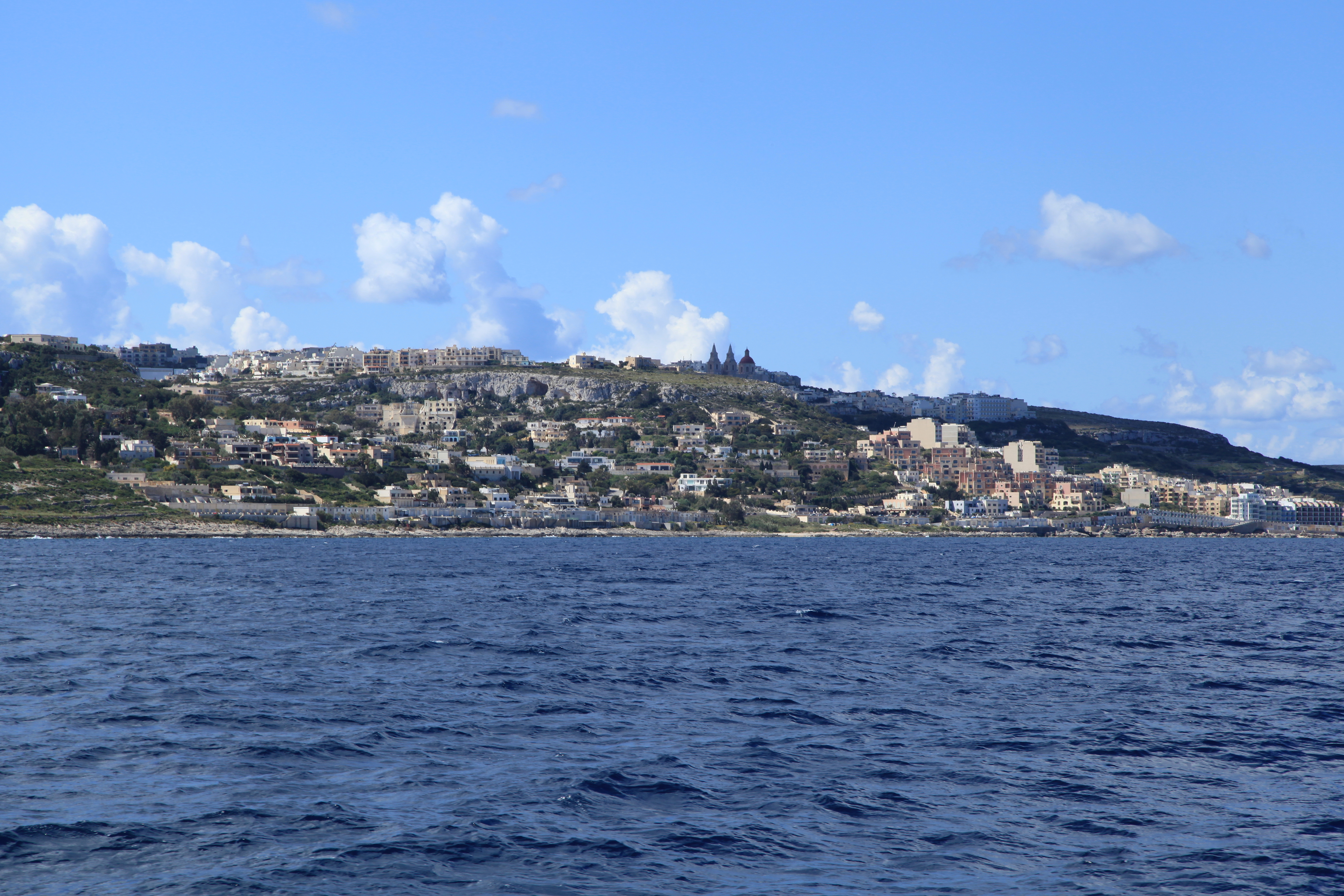 View from the Keppel (IMO 8434415) over the Mellieħa Bay to Mellieħa, Malta